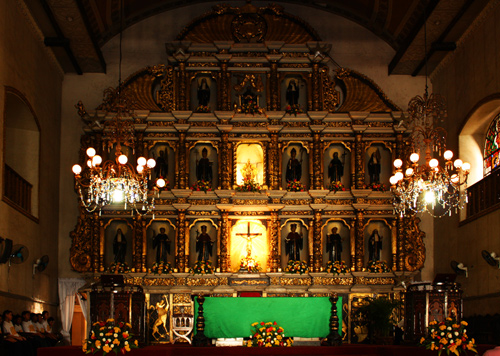 The main altar retablo of the Basilica Minore del Sto. Nino in Cebu City, Philippines.